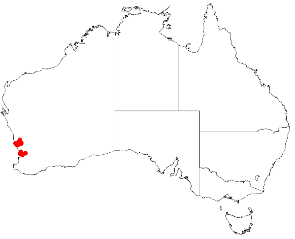 Conostylis festucacea occurrence data from Australasian Virtual Herbarium downloaded 12 May 2017